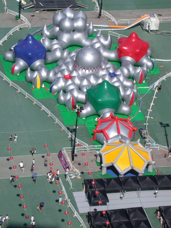 Architects of Air - Levity II aerial